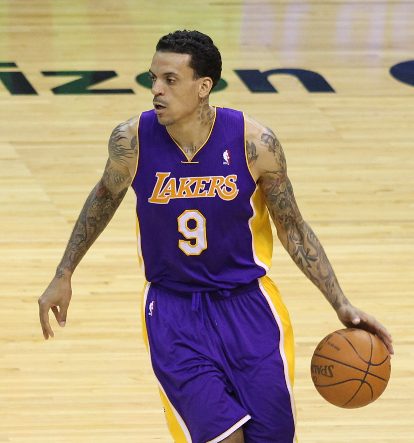 Lakers at Wizards March 7, 2012